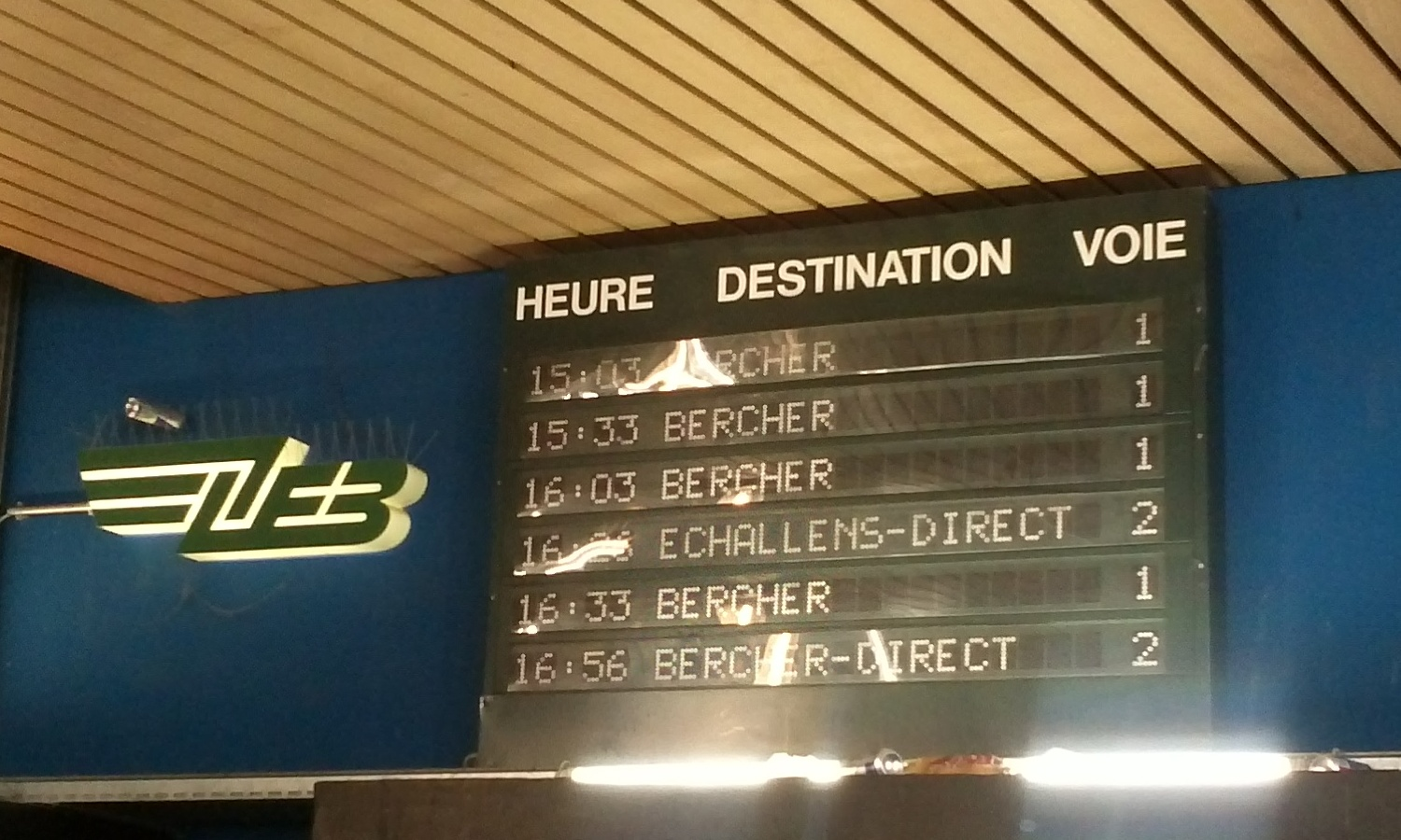 Timetable departures trains, railway station of Lausanne-Flon